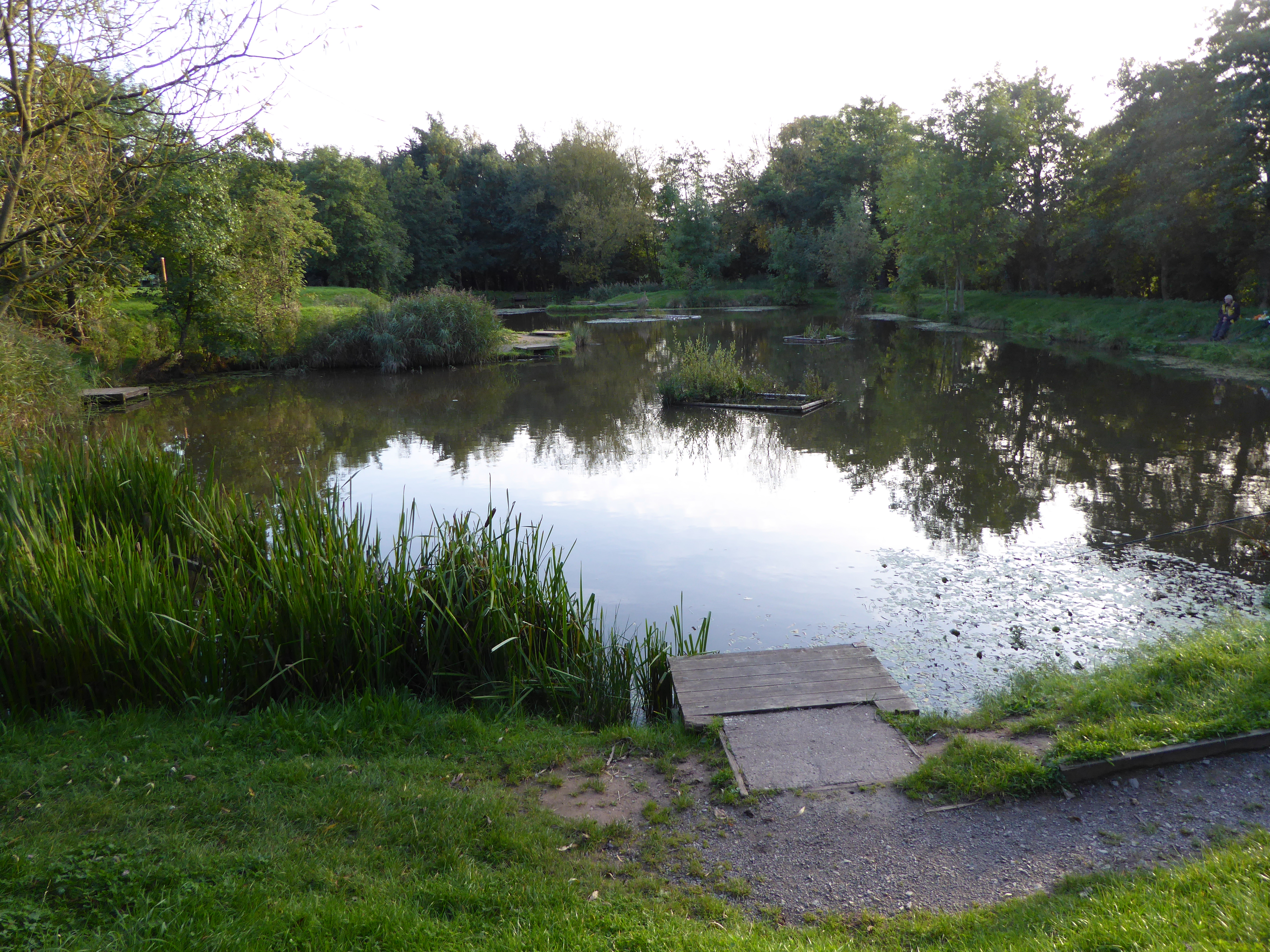 Snibston Grange is a Local Nature Reserve on the eastern outskirts of Coalville in Leicestershire. It is part of Snibston Country Park.